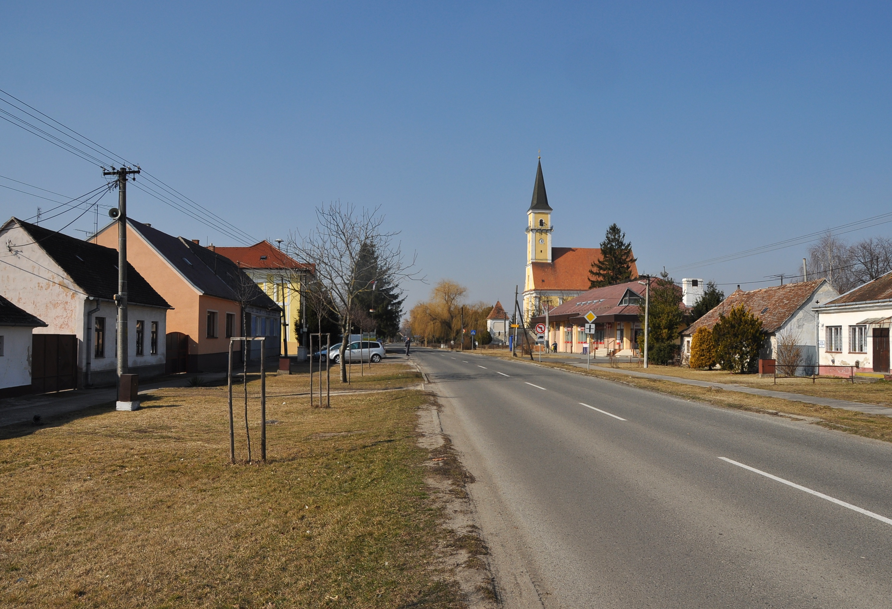 Gajary (Malacky district, Slovakia), Hlavná street, church of the Annunciation, built at 1680. March 2012.